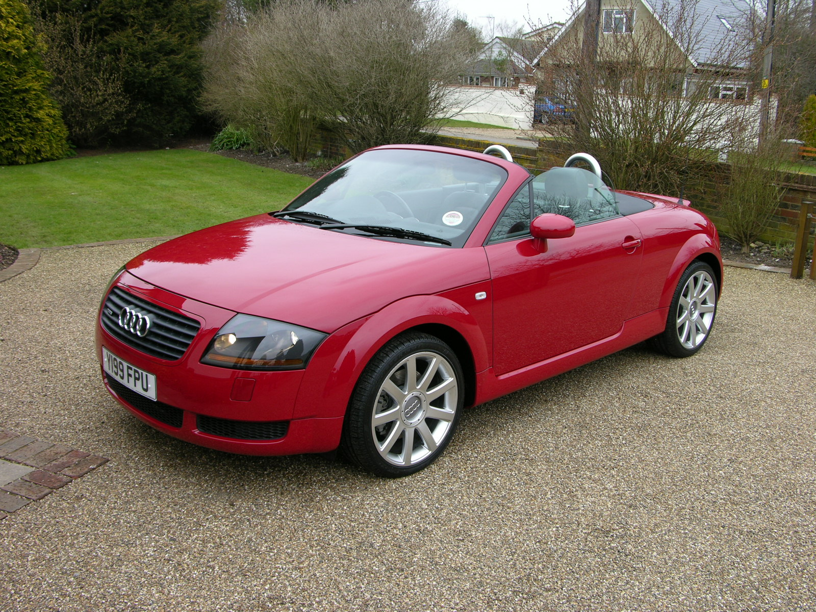 Audi TT Roadster (2001), Misano Red, 225 PS